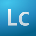 LiveCycle Mobile